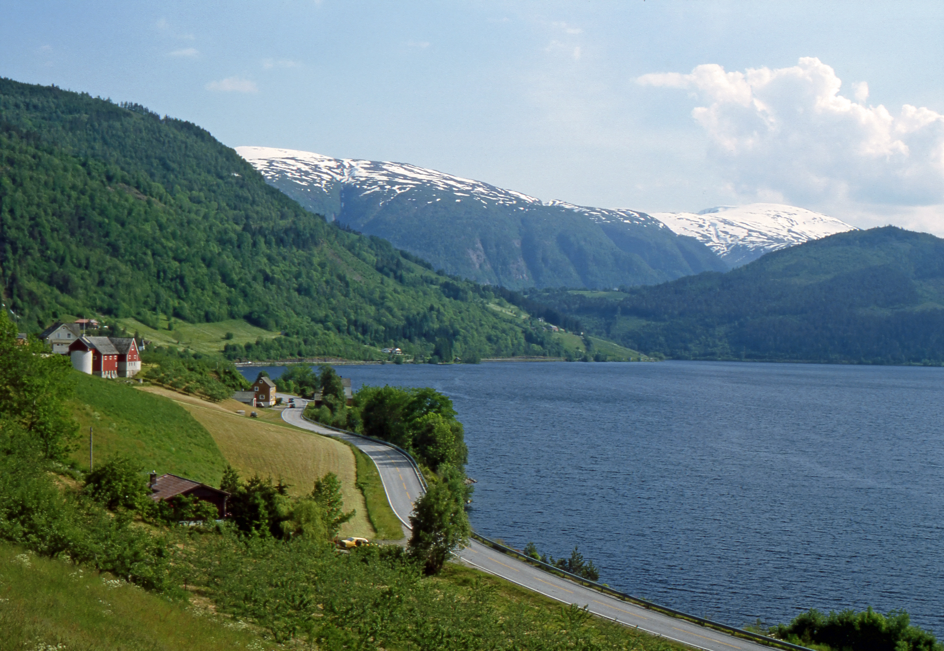 GRANVINSVATNET - Where Road 572 meets Hiway 13, Norway June 15, 1989